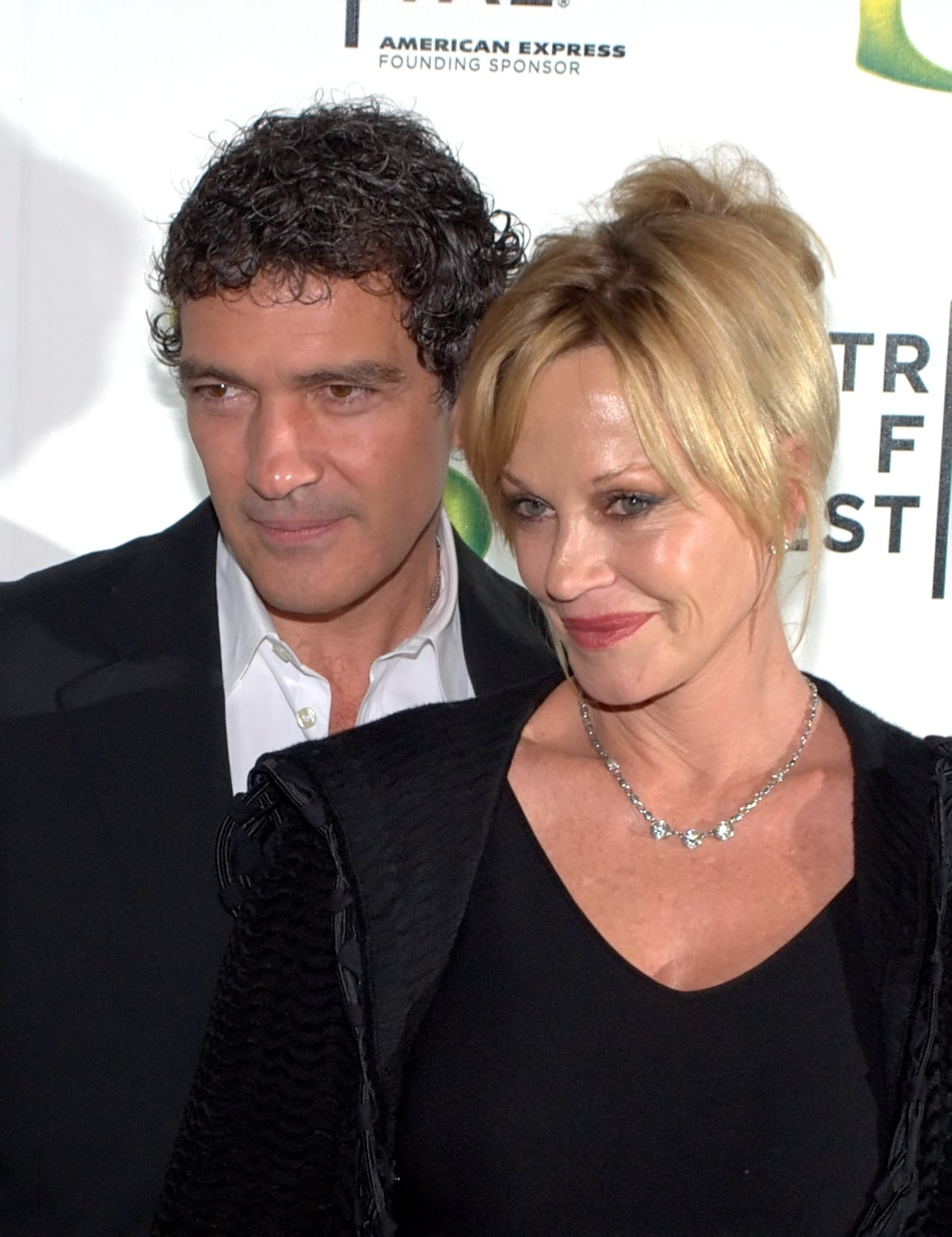 Antonio Banderas y Melanie Griffith en 2010.